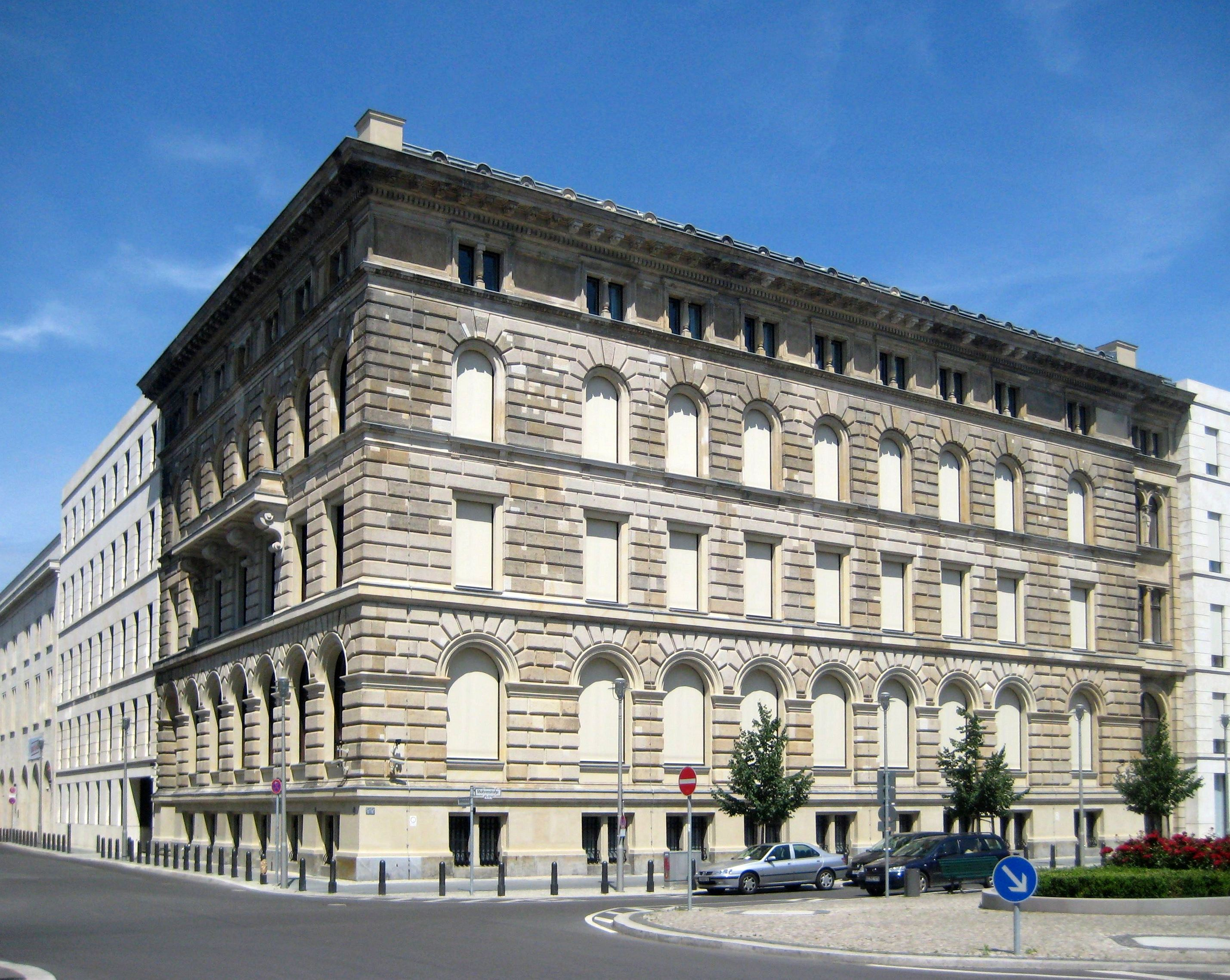 The Kur- and Neumärkische Ritterschafts-Direktion, a former bank building at Mohrenstraße 66 and Zitenplatz in Berlin-Mitte. The Ritterschaftsdirektion was a loan institution targeting impoverished land-owning aristocrats as customers. Its administration building was erected 1890-1892 to a design by architect Hermann Dittmar imitation city palace of Renaissance Florence. It stood at the corner of Wilhelmplatz (no longer existing) and Zietenplatz, opposite Berlin's then largest hotel, "Kaiserhof". Only marginally damaged in WWII, it was used as guesthouse of the GDR government after the war. It was reconstructed in 2007 and is now part of the complex of the Federal Ministry for Labour and Social Affairs. The building has been designated as a historic landmark.